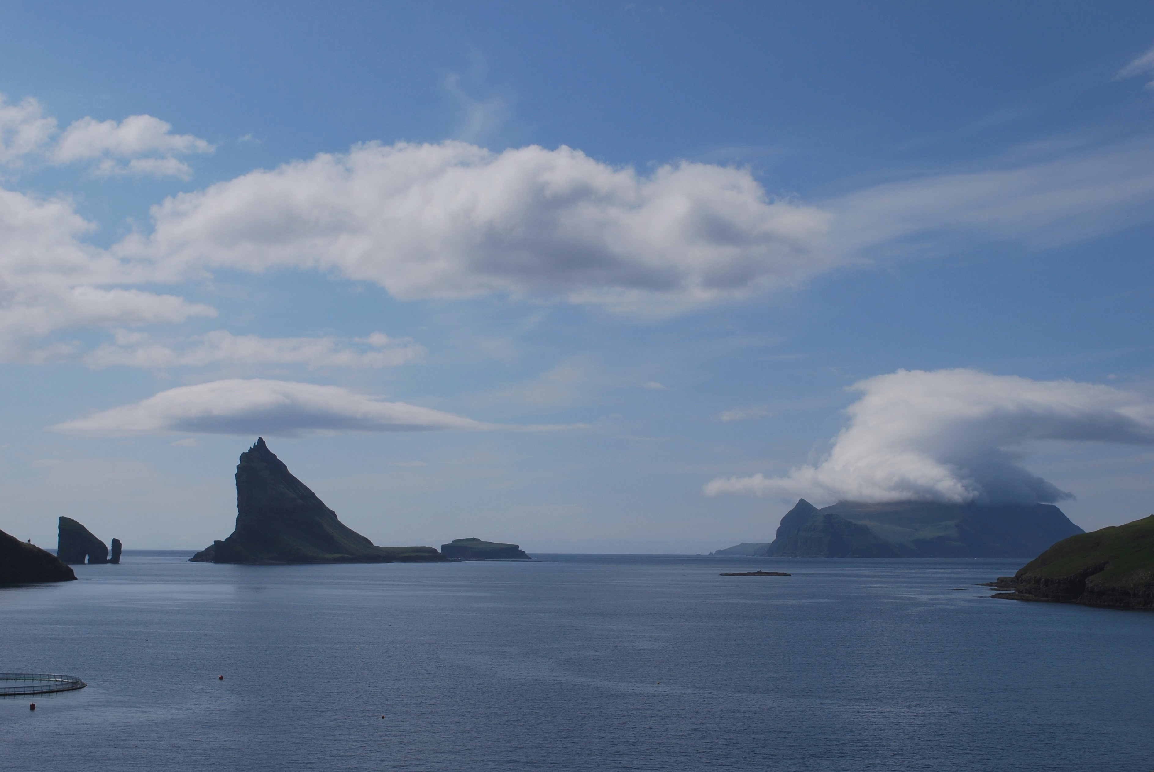 Drangarnir, Tindhólmur and Mykines. Faroe Islands